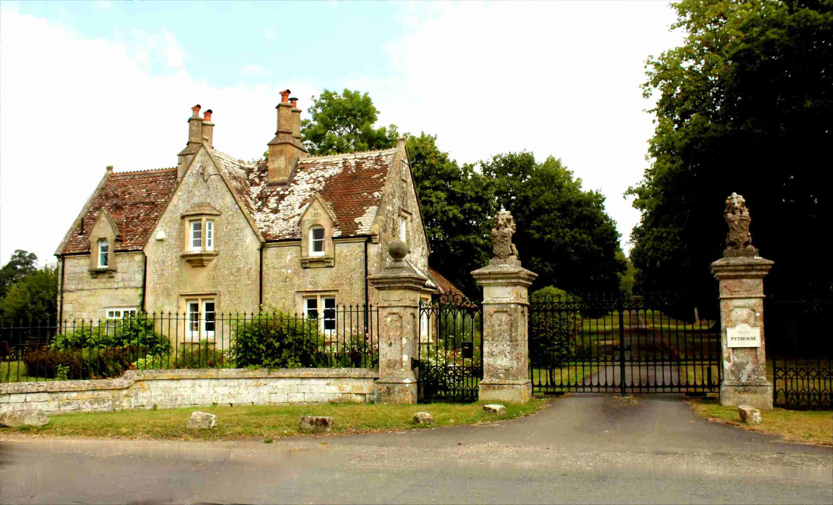 UK PytHouse Estate entrance with lodge house and gateposts with lion statues